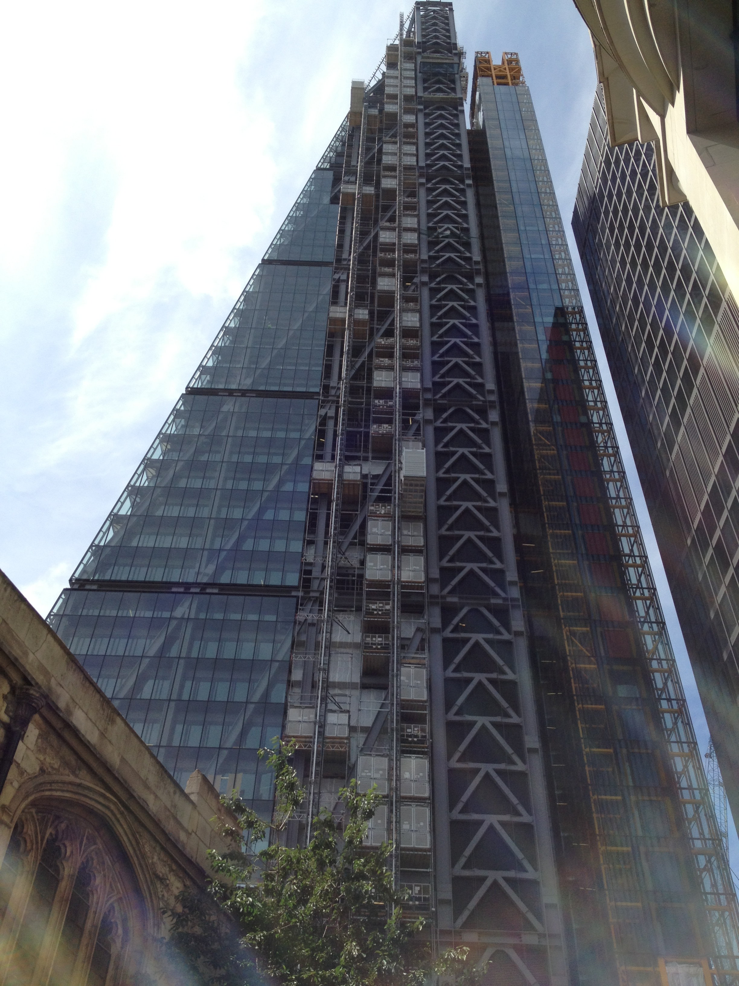 The Leadenhall Building at 122 Leadenhall Street, London, under construction in July 2013.